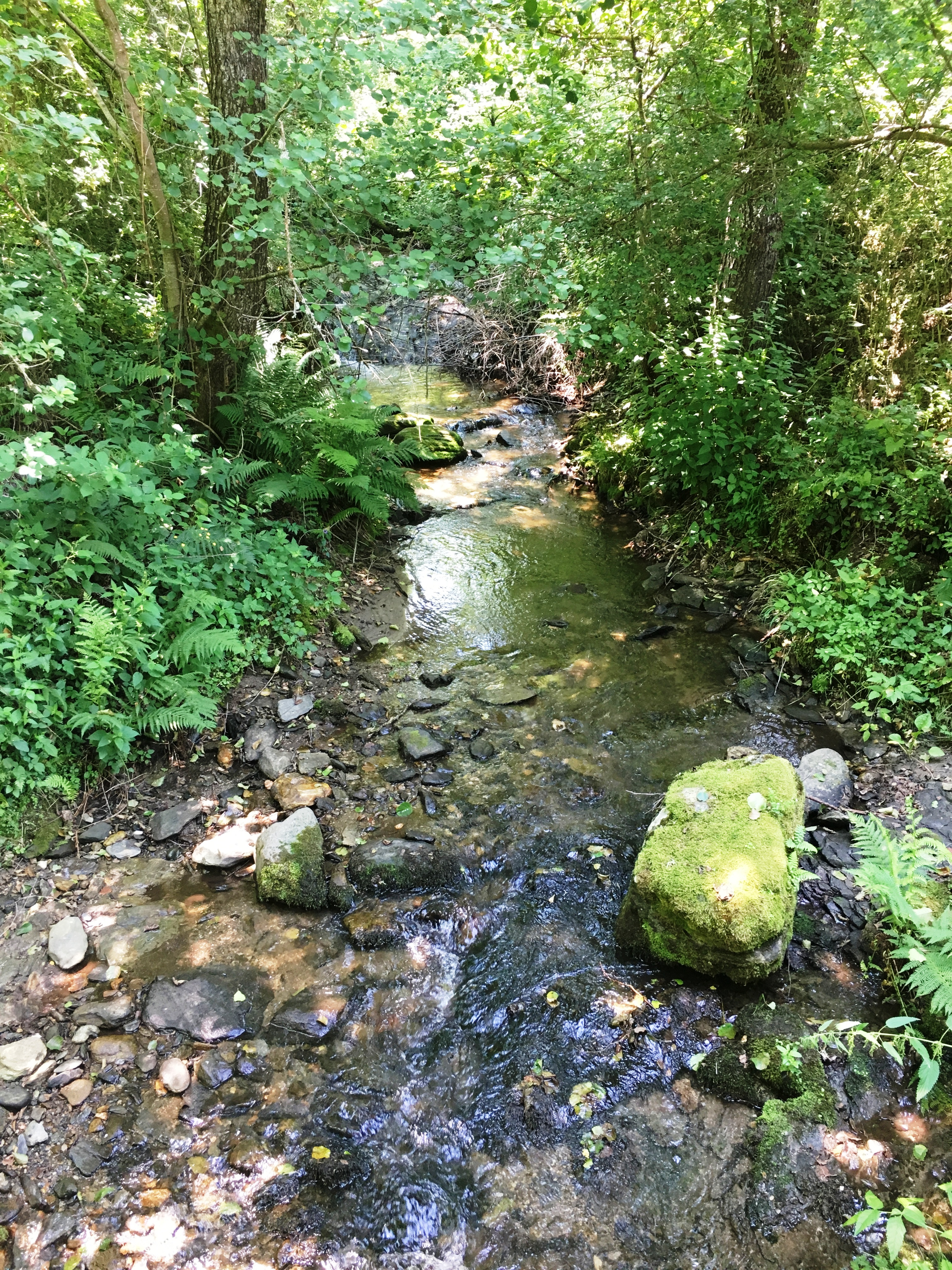 Mala Reka through the village of Zrkle